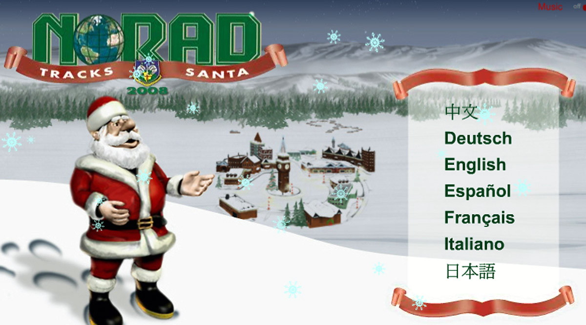 Santa's fans can track his journey around the world on Dec. 24 at North American Aerospace Defense Command's special Web site: The site also features the history of NORAD Tracks Santa program, has interactive games and more. (U.S. Air Force graphic)